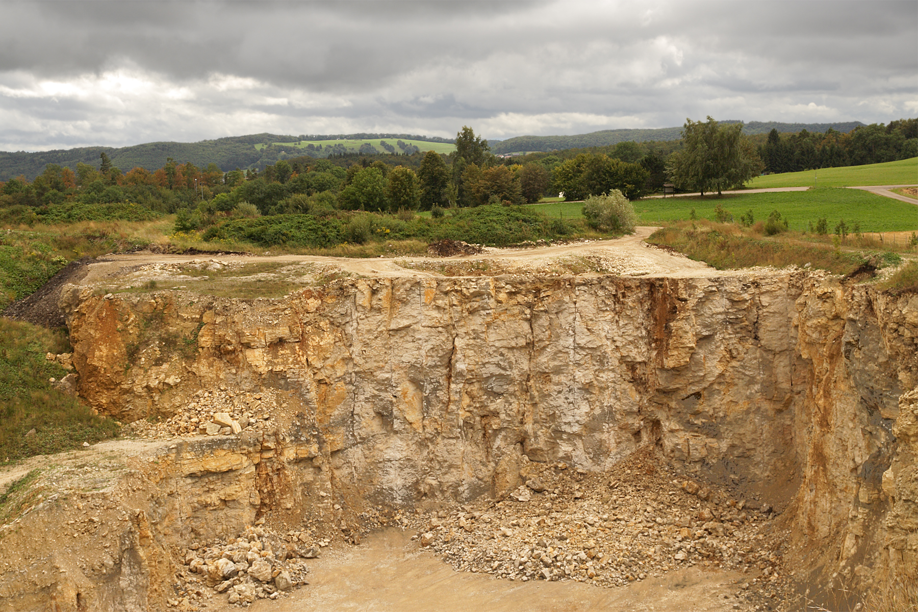 Limestone quarry in the “Mittlere Schwäbische Kuppenalb” (North Central Swabian Alb), Willmandingen/Sonnenbühl, view WSW. The quarry wall exposes thickly bedded limestone of the “Untere Felsenkalk Formation” (Kimmeridgian). Fissures and joints within the limestone are filled with Cenozoic, tropical, highly weathered soils of mainly brown-red color. Inclusions of grey marl appear to be randomly distributed in the limestone. In the terrain beyond the right margin of the image, there are abandoned pits which used to be mined for “Bohnerz” (the Cenozoic fissure fill: clay and coated grains of iron oxides/hydroxides). Note that the modern soil on top of the limestone forms a thin veneer only, which is typical for karstic areas (except of river valleys with high rates of deposition).